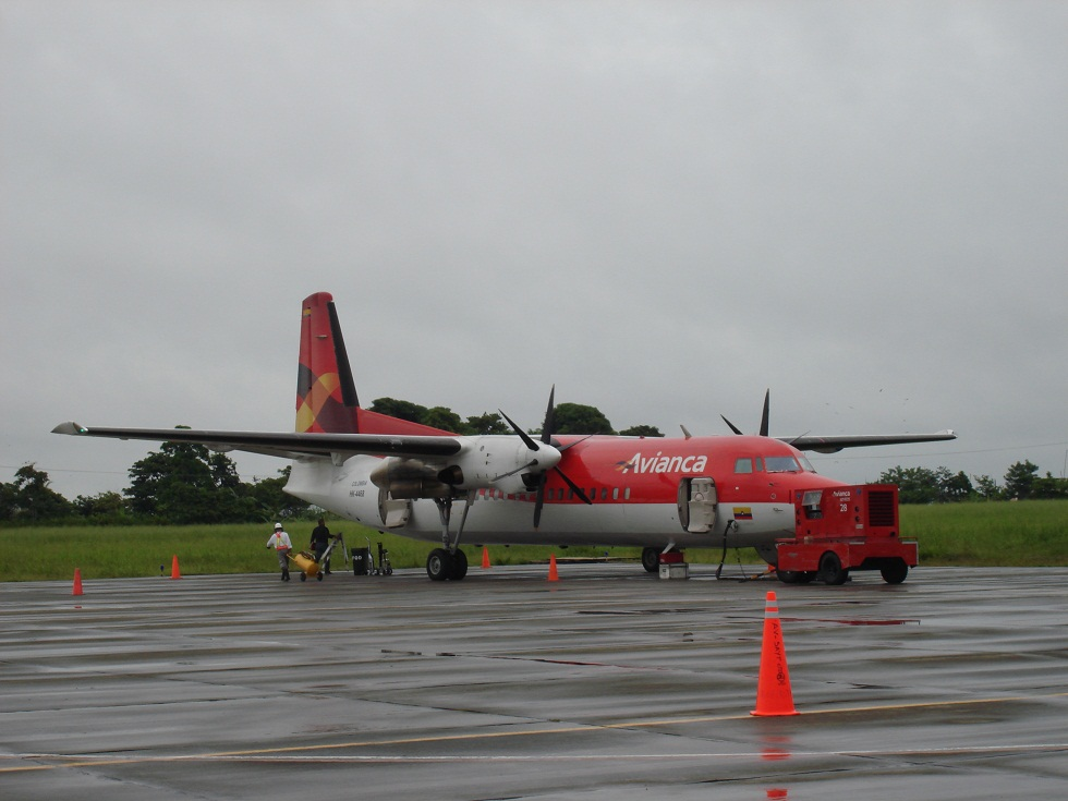 Fokker F50 en el Aeropuerto La Florida